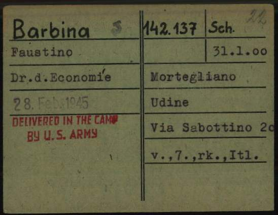 Faustino Barbina's registry card as a prisoner at Dachau Nazi Concentration Camp Red stamp means he was liberated from Dachau by the U. S. Army